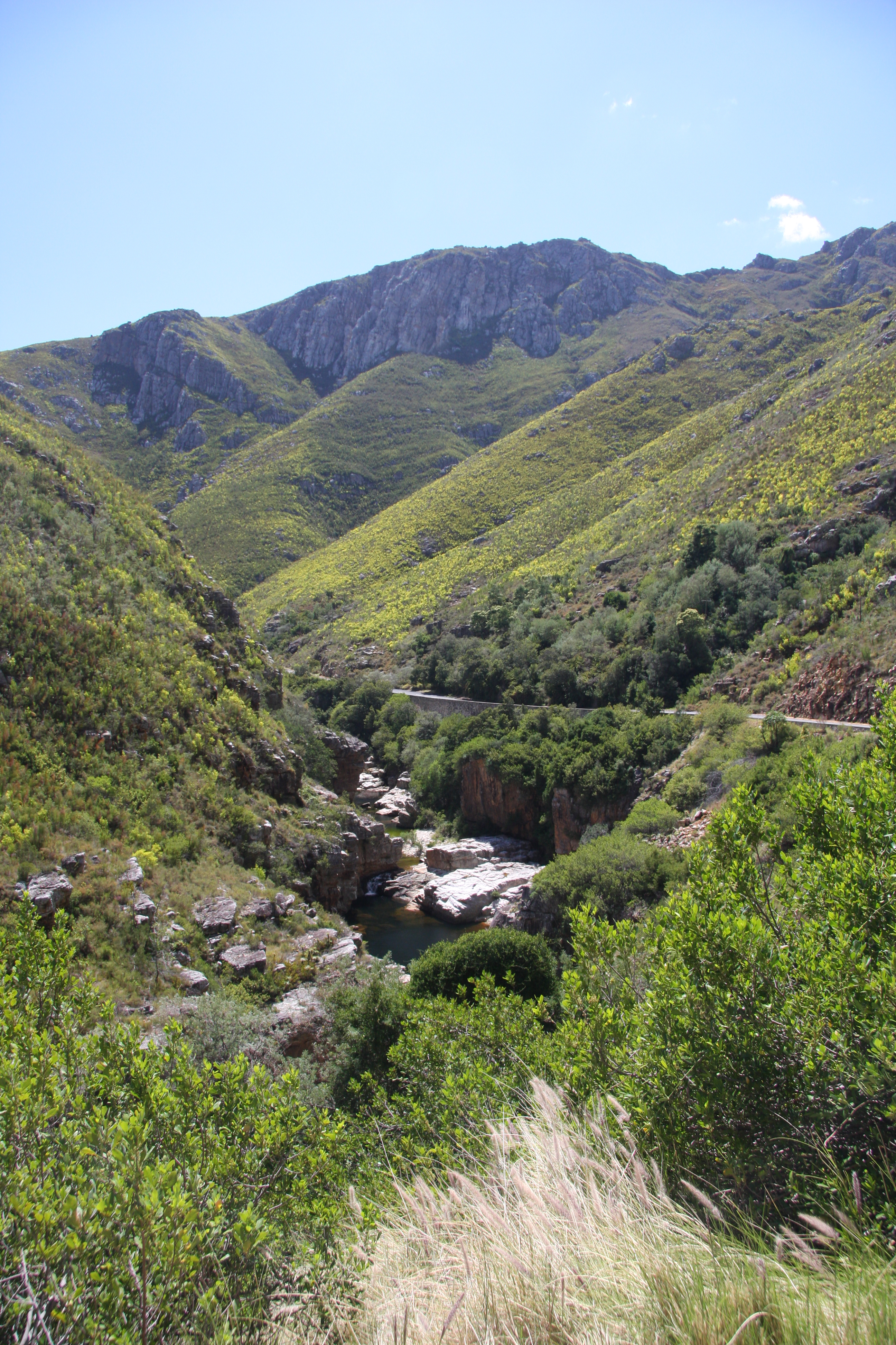 Tradouw is Khoi'san word meaning 'the women's poort / path'